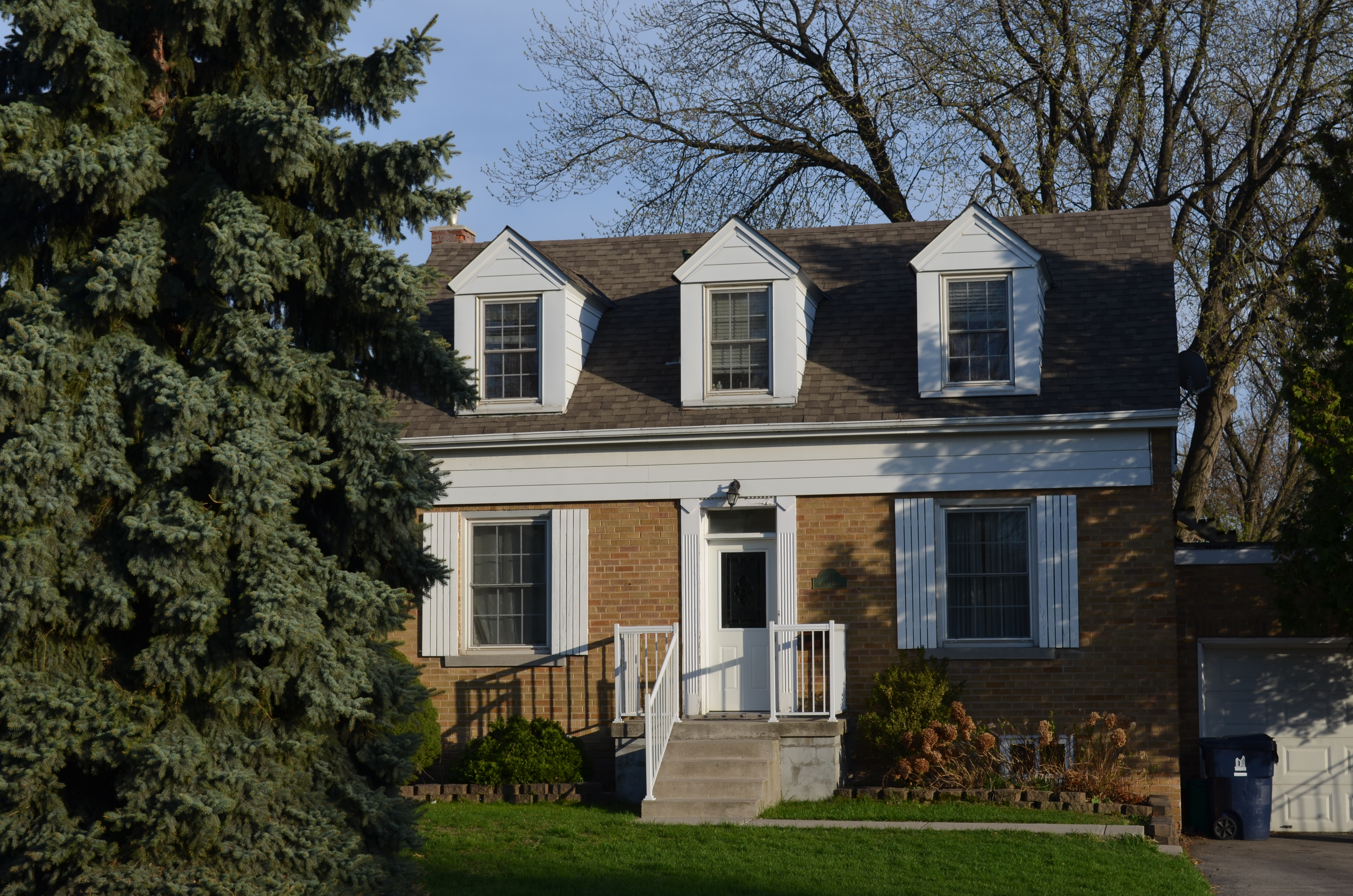 A house in North York